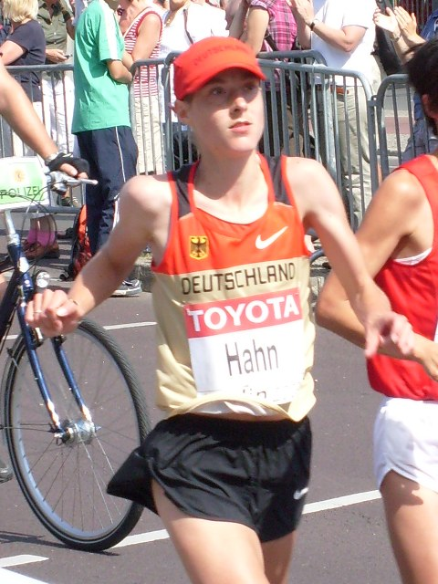 Susanne Hahn during marathon race at 12th World Championships in Athletics Berlin 2009